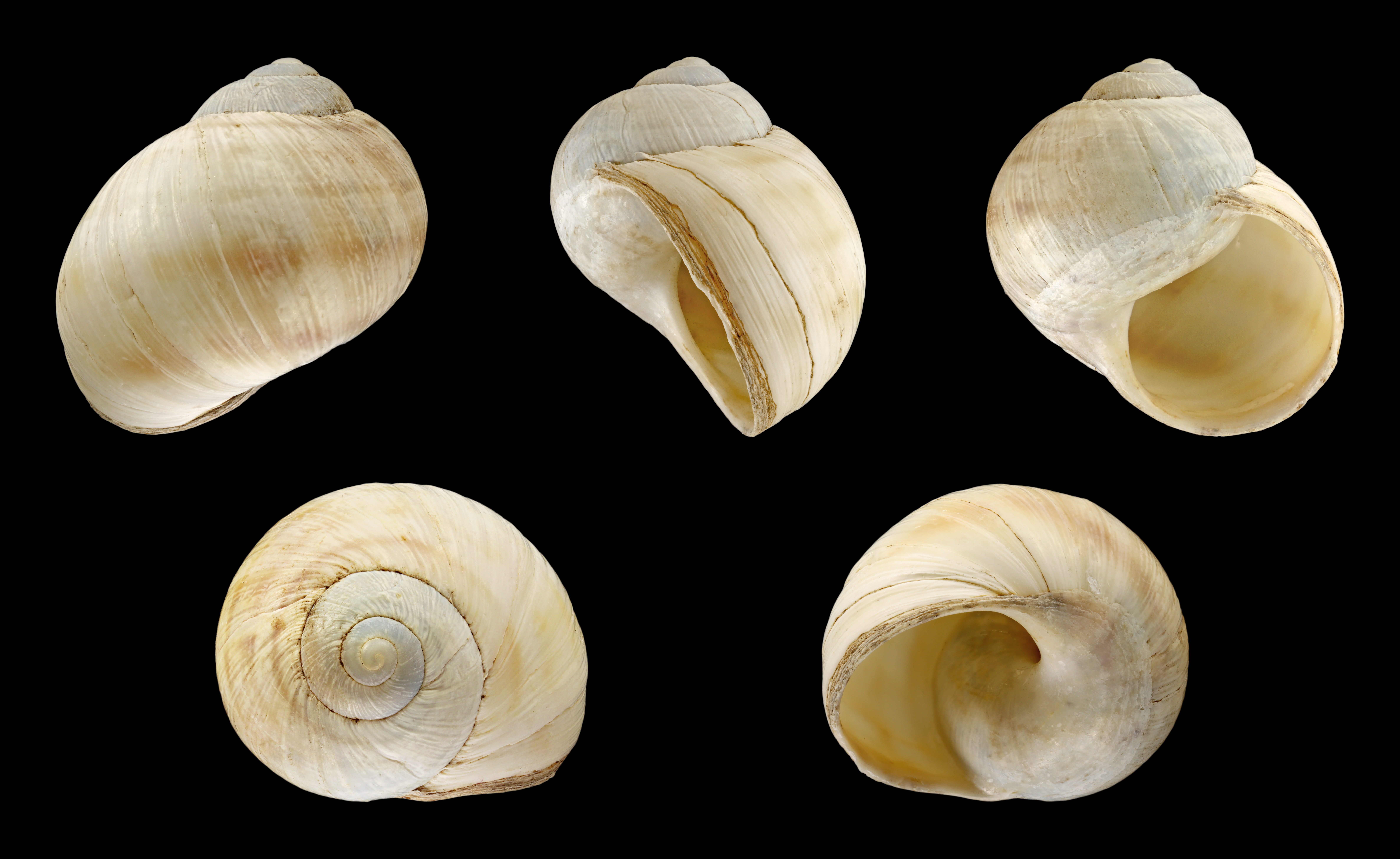 Helix engaddensis Bourguignat, 1852; Height 3.3 cm; Originating from Tulkarm (West Bank) about 20 km east of Netanya, Israel; Shell of own collection, therefore not geocoded.